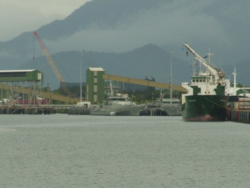 The Australian patrol boat HMAS Childers (and others) berthed at HMAS Cairns in Cairns, Queensland